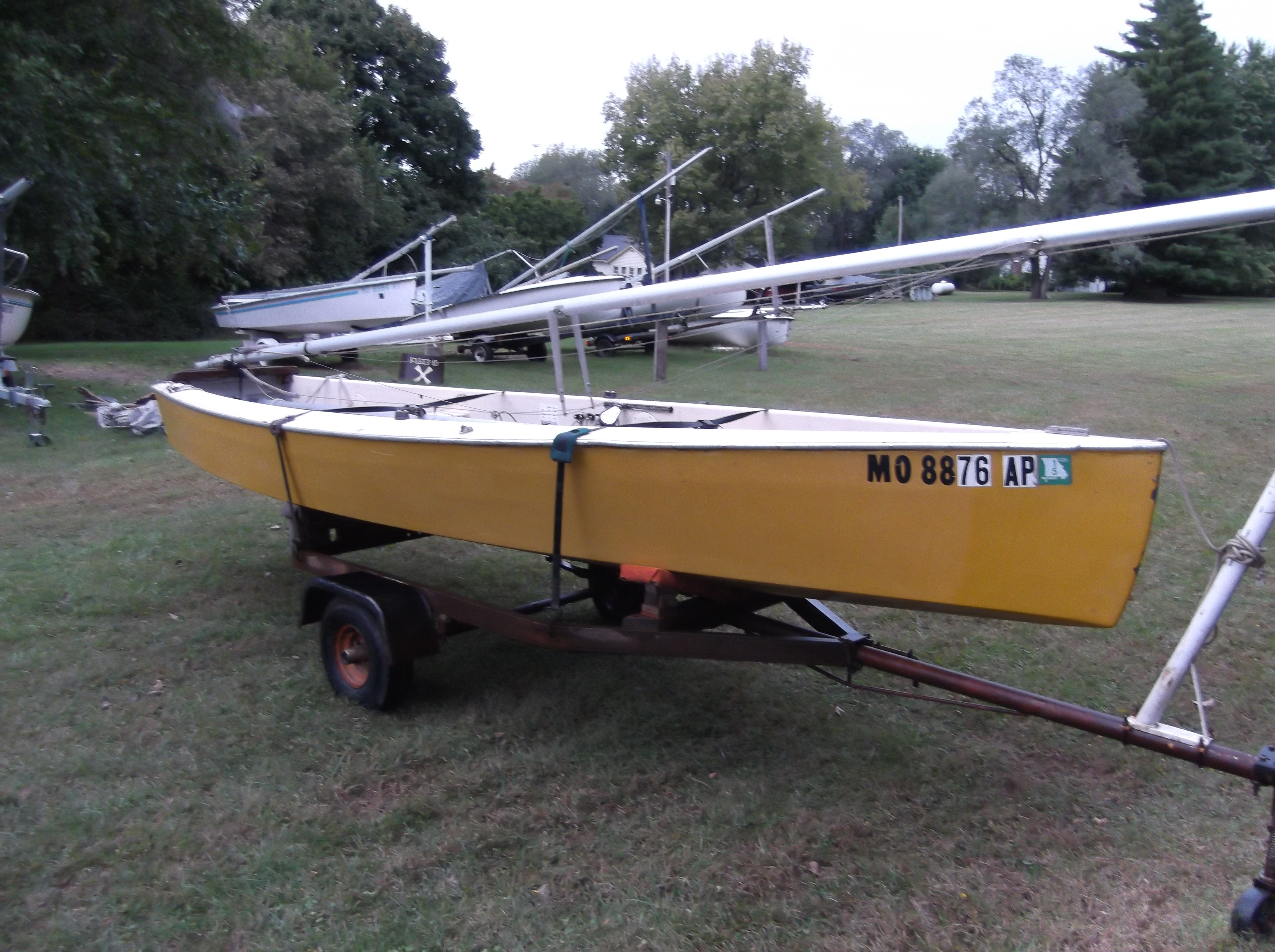 Windmill Hull with mast